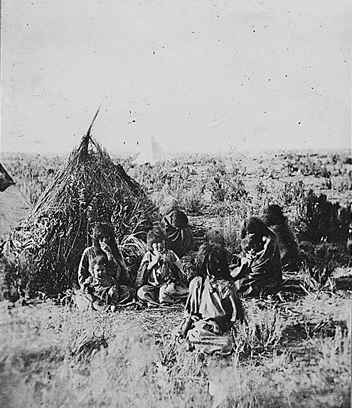 Family of Bannocks in front of a grass tent, Idaho.